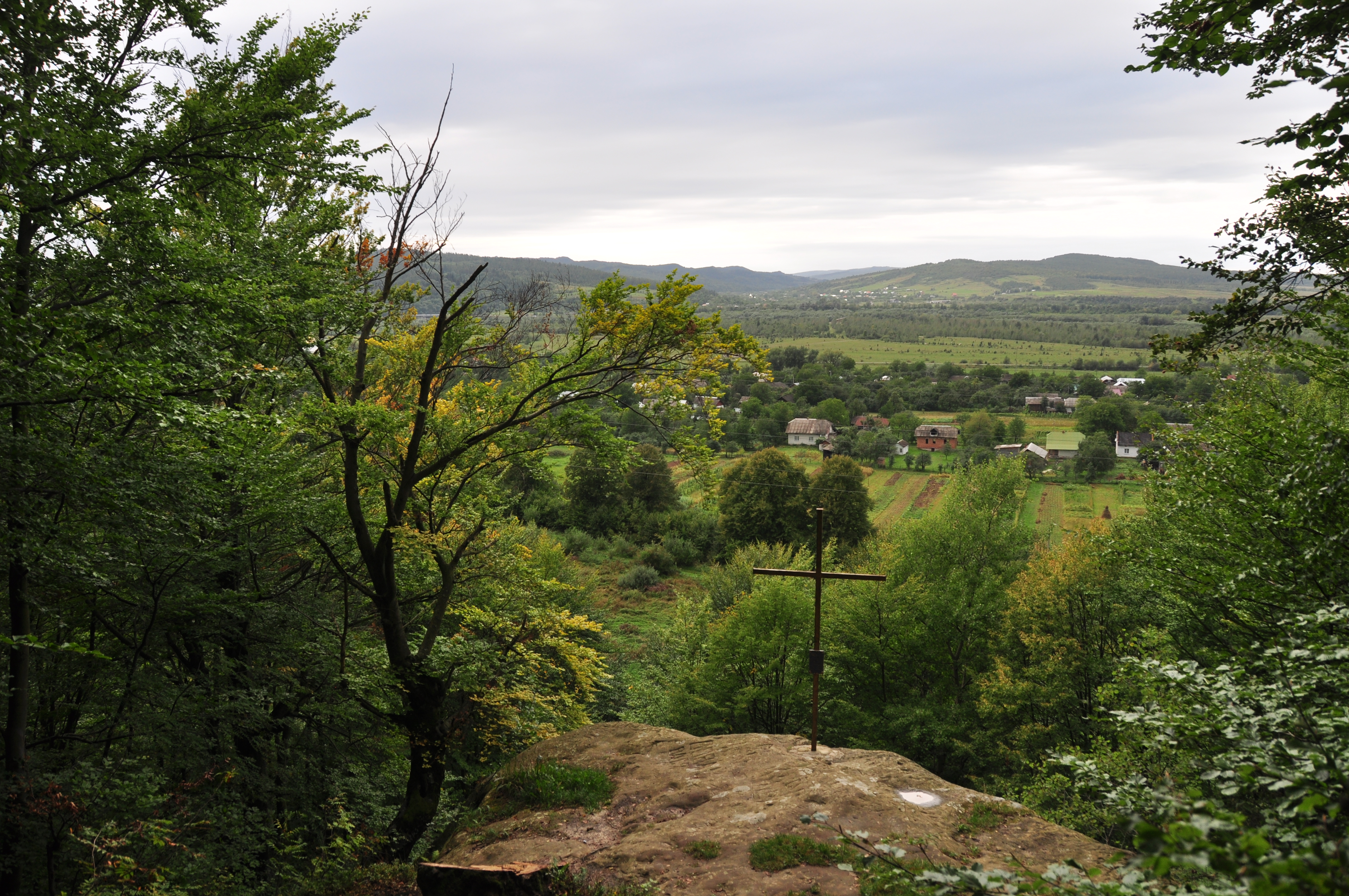 Rozhirche, cross over the caves